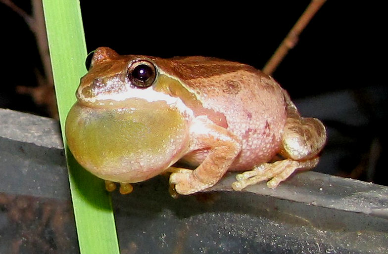 Pseudacris hypochondriaca (Baja California Treefrog) croaking Identification: Based on these sites: and The location that the frog was found in seems to exclude the other two species in the Pseudacris genus that occur in California. The dark line through the eye seems to be consistent with the Pseudacris hypocondiaca identification as well. The image was previously identified as Pseudacris regilla. This appears to have been in error Location: Orange, CA, USA